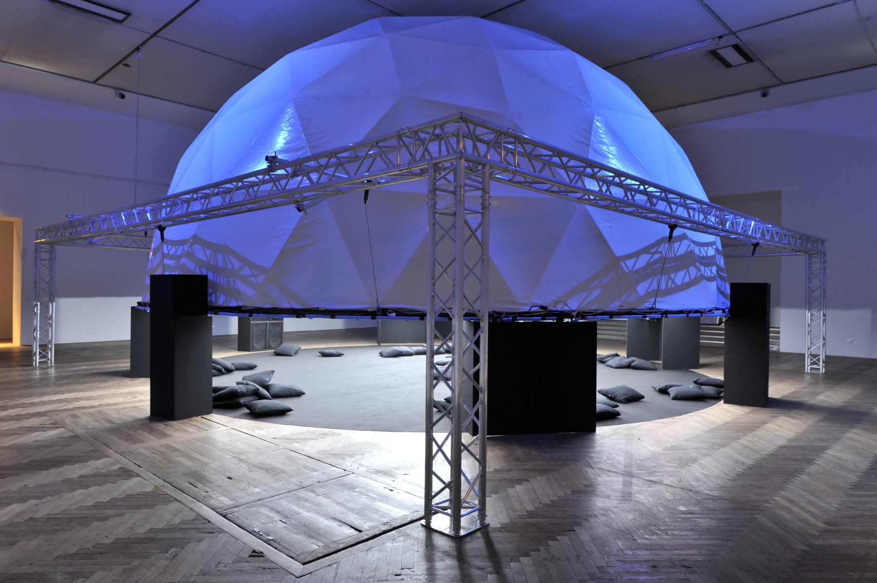 Künstlerhaus_ Ausstellung Space Inventions 2010_Foto © Markus Krottendorfer